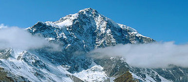 Ortles from east